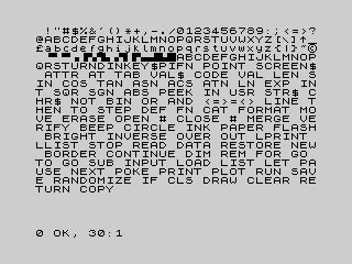 Screenshot of the output of the following simple Sinclair ZX Spectrum BASIC program which demonstrates the character set for all printable code points; 32–255 (0–31 are used as control codes): 10 FOR c=32 TO 255 20 PRINT CHR$ c; 30 NEXT c